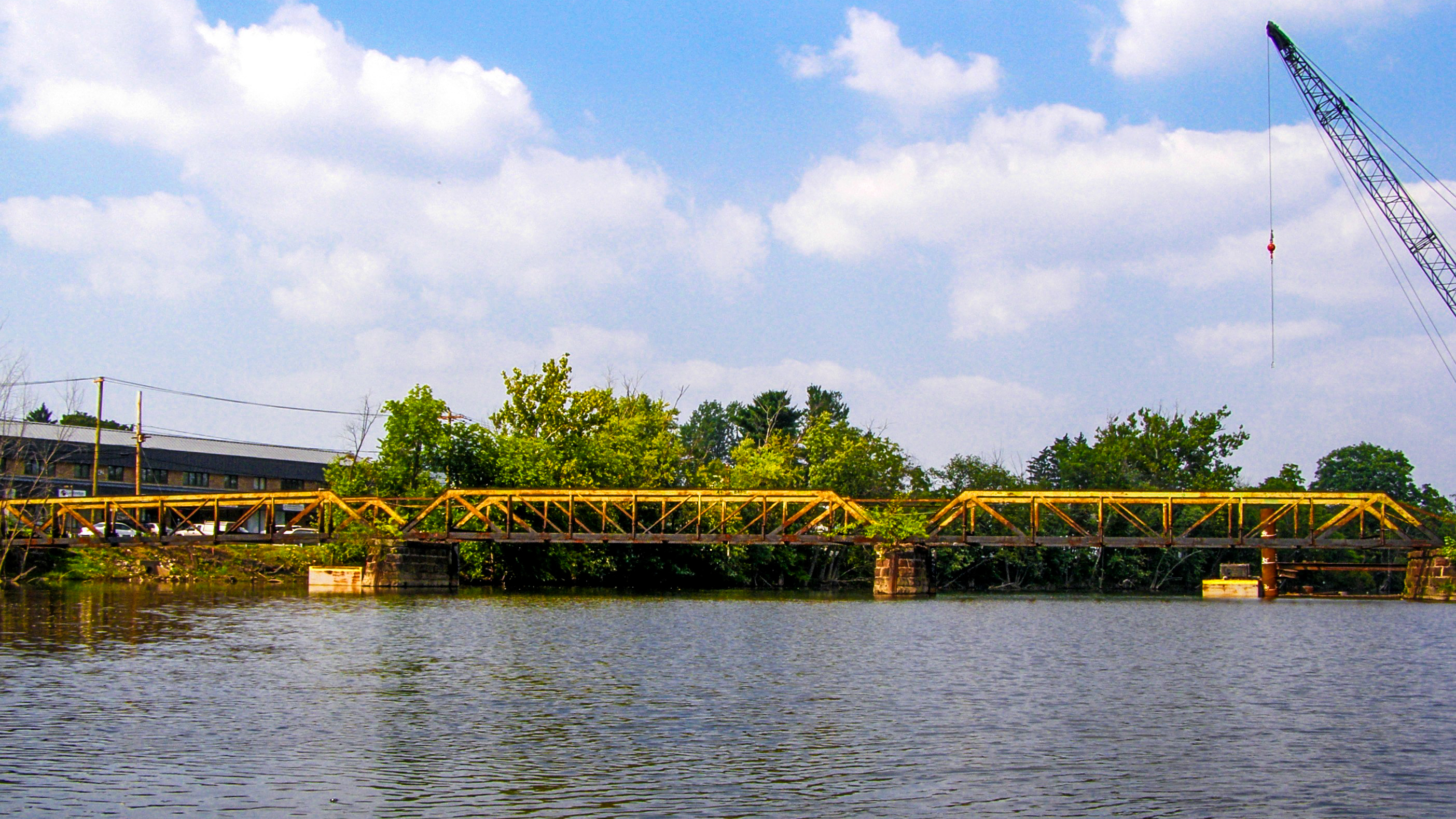 Hillery Street Bridge over the Passaic River, Totowa - Woodland Park, New Jersey (looking east by kayak)